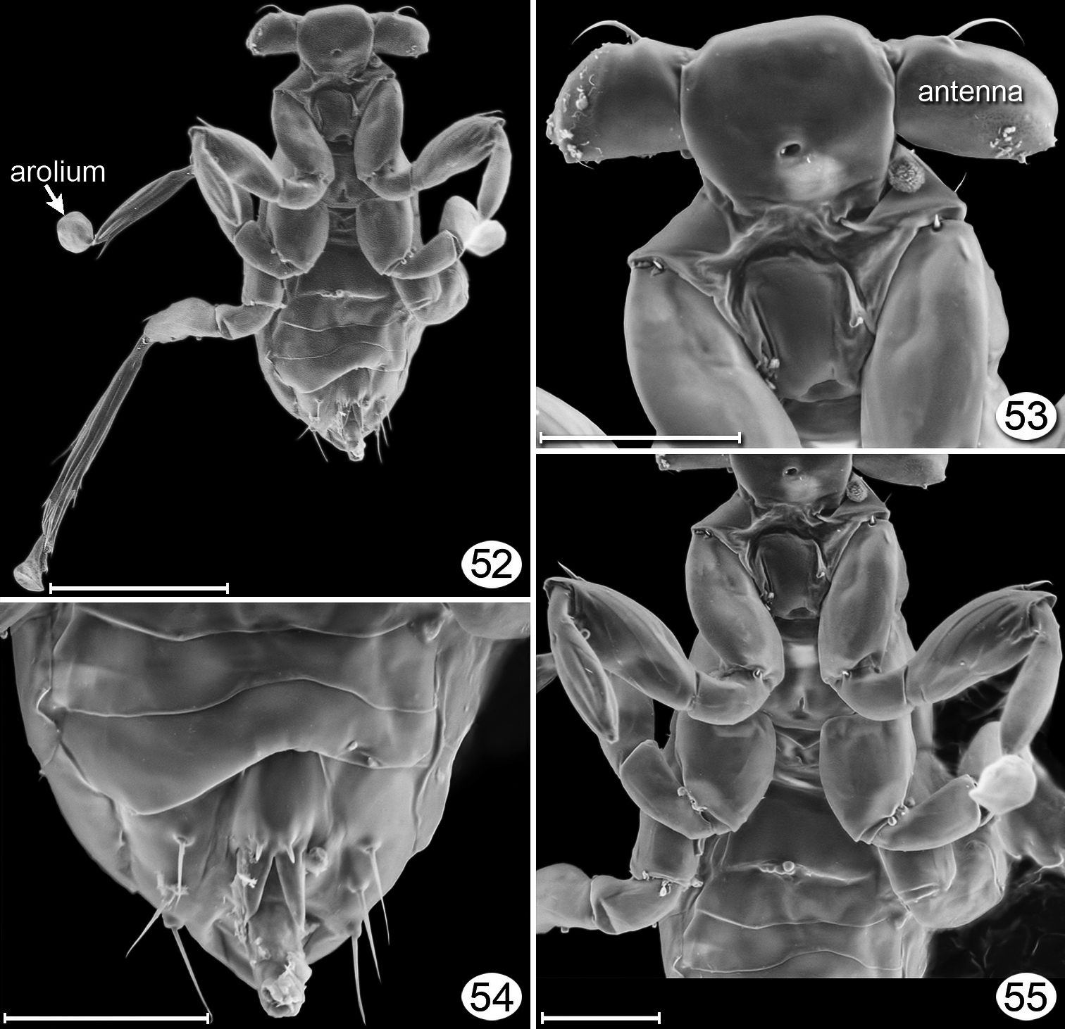 Dicopomorpha echmepterygis male, paratype, ventral. 52 habitus 53 head + prothorax + procoxa 54 apex of gaster 55 mesosoma + base of most legs and metasoma. Scale line = 20 μm, except Fig. 52 = 50 μm.